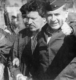 CNP Gen. Rosso Serrano (right) is pictured with Miguel Rodriguez-Orejuela (center) shortly after his 1995 arrest.